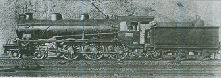 Gyeongbu Railway locomotive number 303, built by the Baldwin Locomotive Works in 1906 and assembled in Korea in the railway's shops in Busan. This locomotive later became Chosen Government Railway Tehoi-class Tehoi-3, and after 1945, became Korean National Railroad Teou1-3.